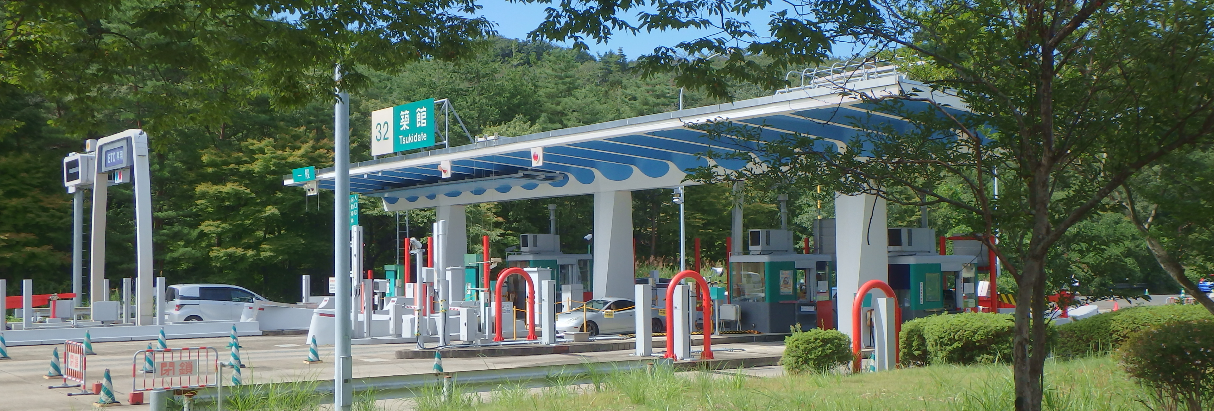 Tsukidate IC,Miyagi prefecture,Japan